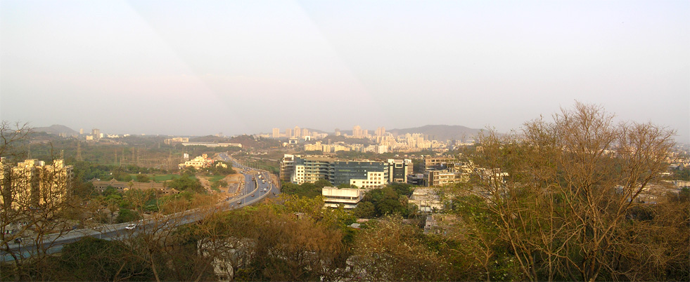 A view of the Powai and SEEPZ skylines as seen from the top of Mahakali Caves. The Jogeshwari-Vikhroli Link Road (JVLR) is also visible.